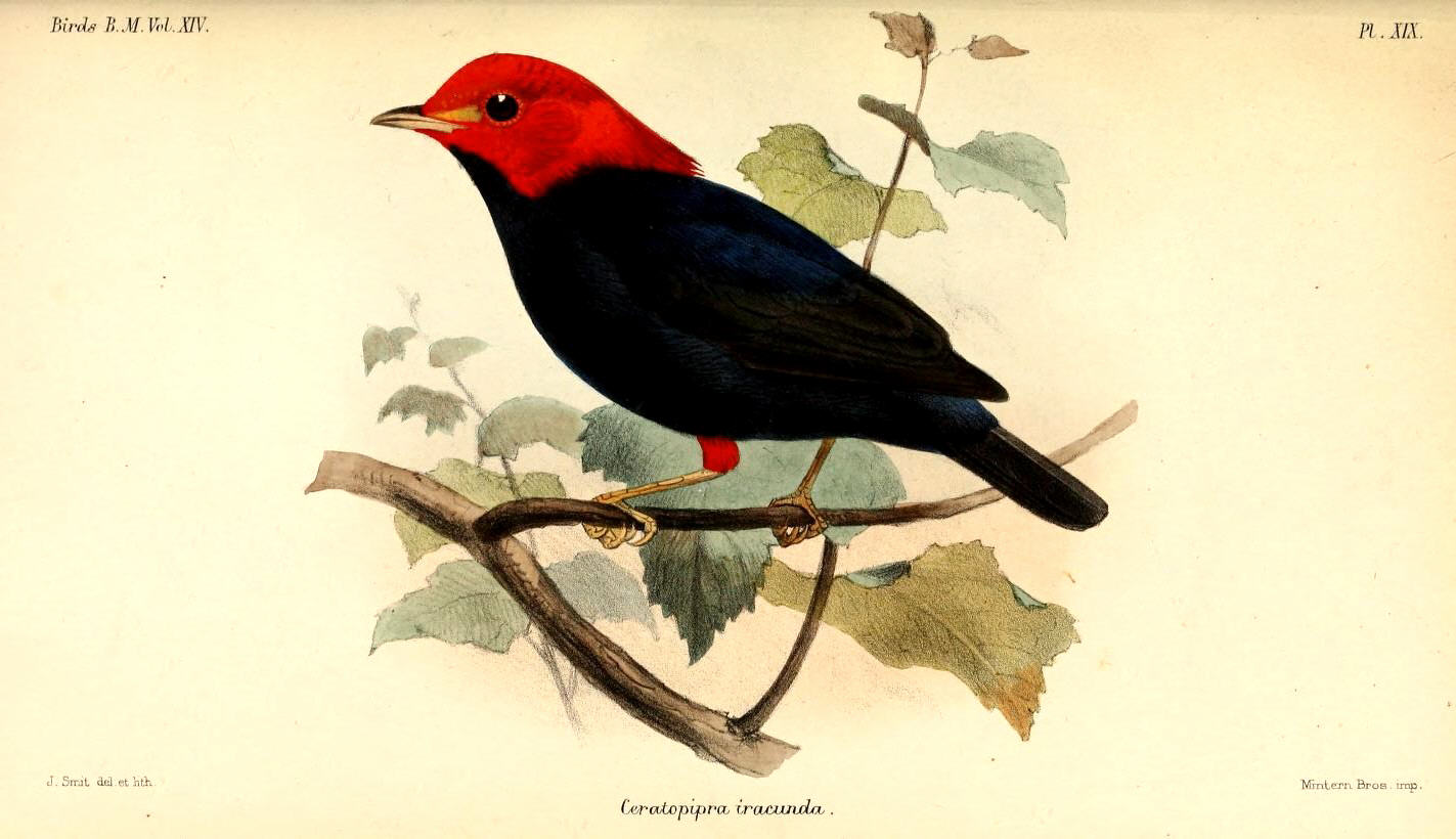 Scarlet-horned Manakin